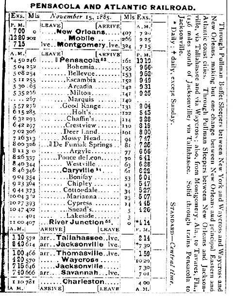 Pensacola & Atlantic Railroad schedule, November 15, 1885